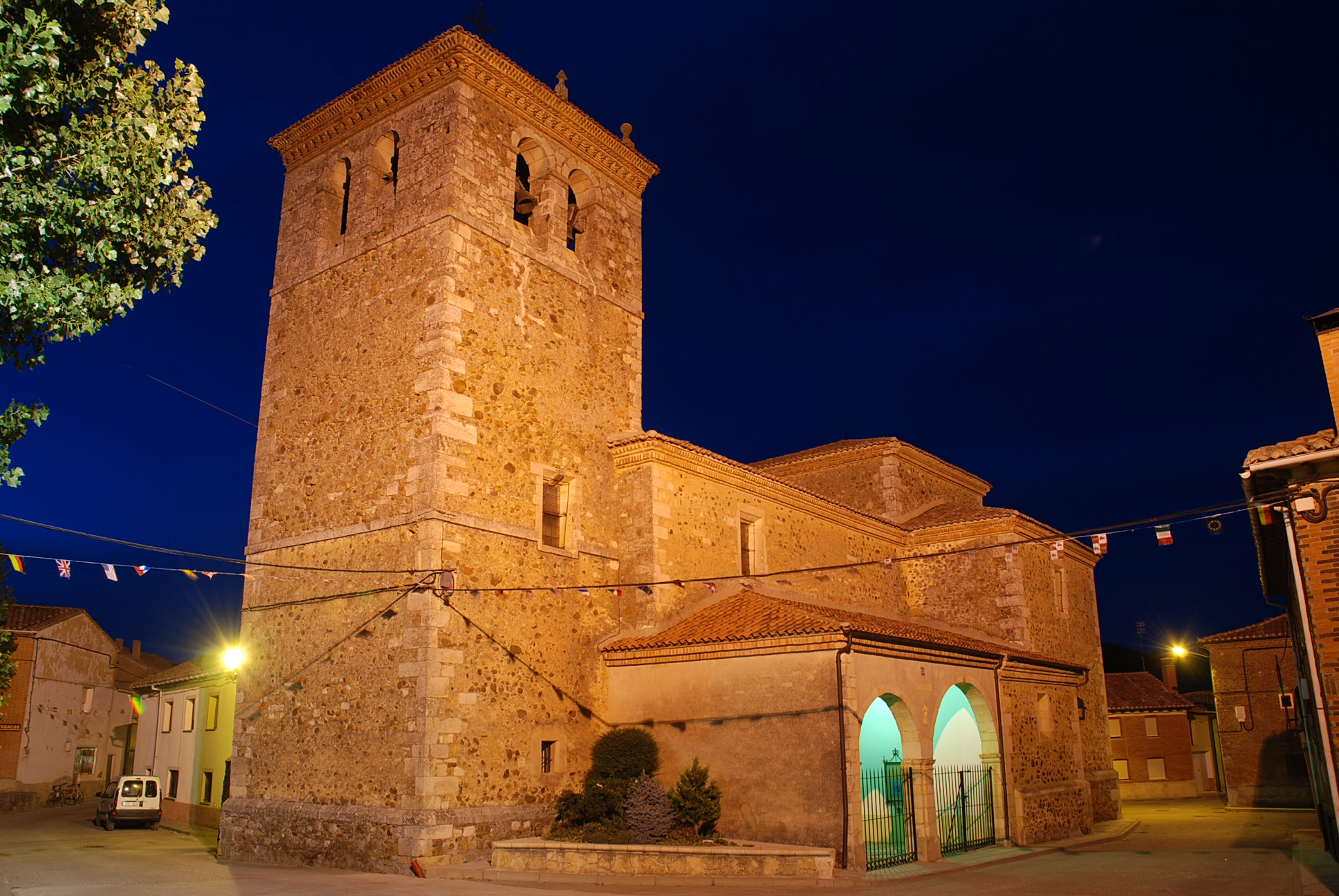 Churh of Saint Bartholomew of Báscones de Ojeda (Palencia, Castile and León).